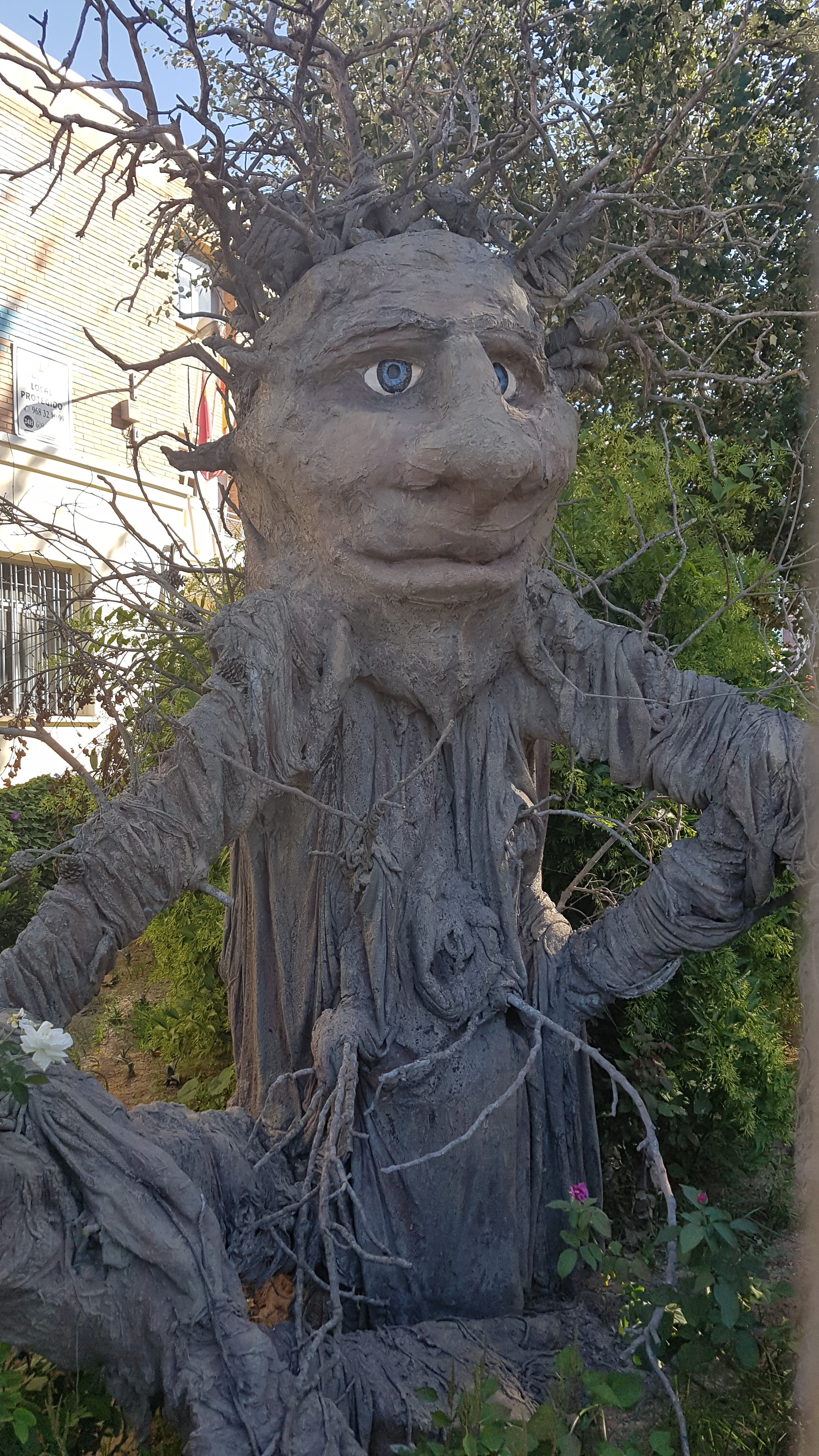 Sabino is a sculpture created in 2019 by the students of IES Isaac Peral under the direction of drawing teacher María Pilar López Salas. The figure, which is three meters high and uses recycled materials, represents an anthropomorphic tree and was erected with the aim of drawing attention to the scarcity of green spaces in the city of Cartagena.